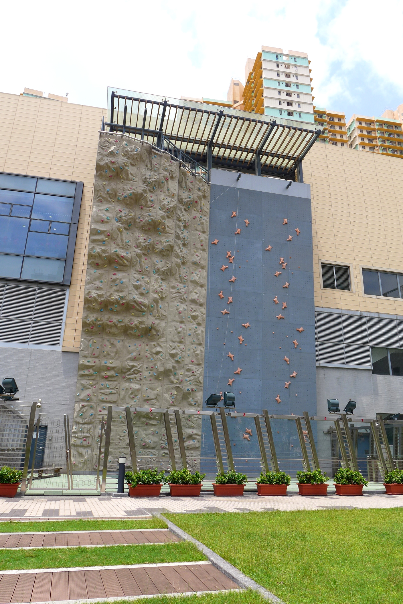 Tin Fai Road Sports Centre Outdoor Sport Climbing